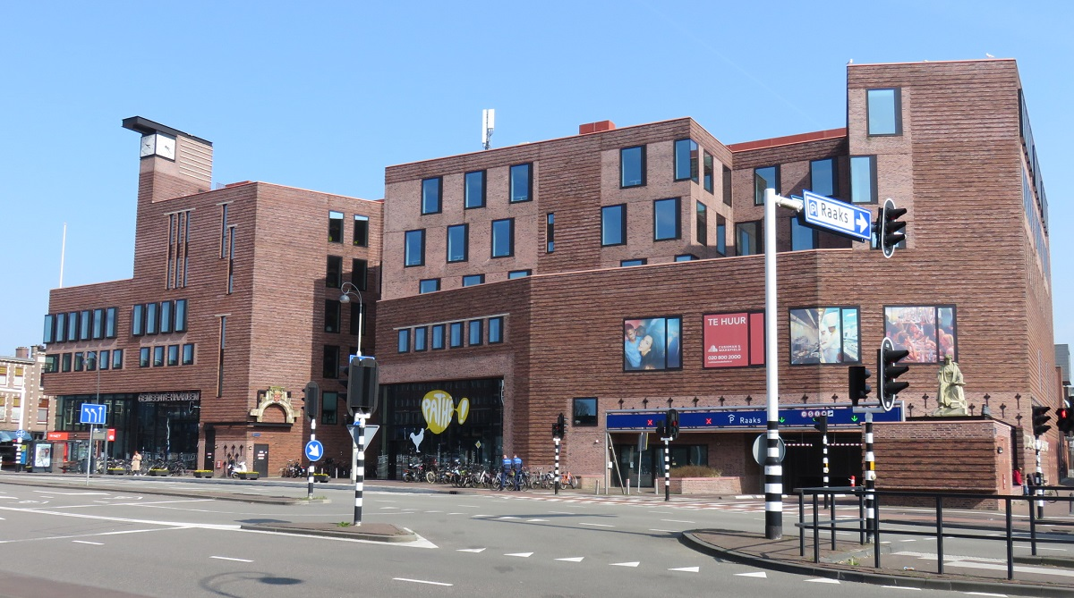 Multipurpose building of the Raakscomplex or Raakskwartier in Haarlem, the Netherlands, including a cinema, an underground parking garage and municipal offices.